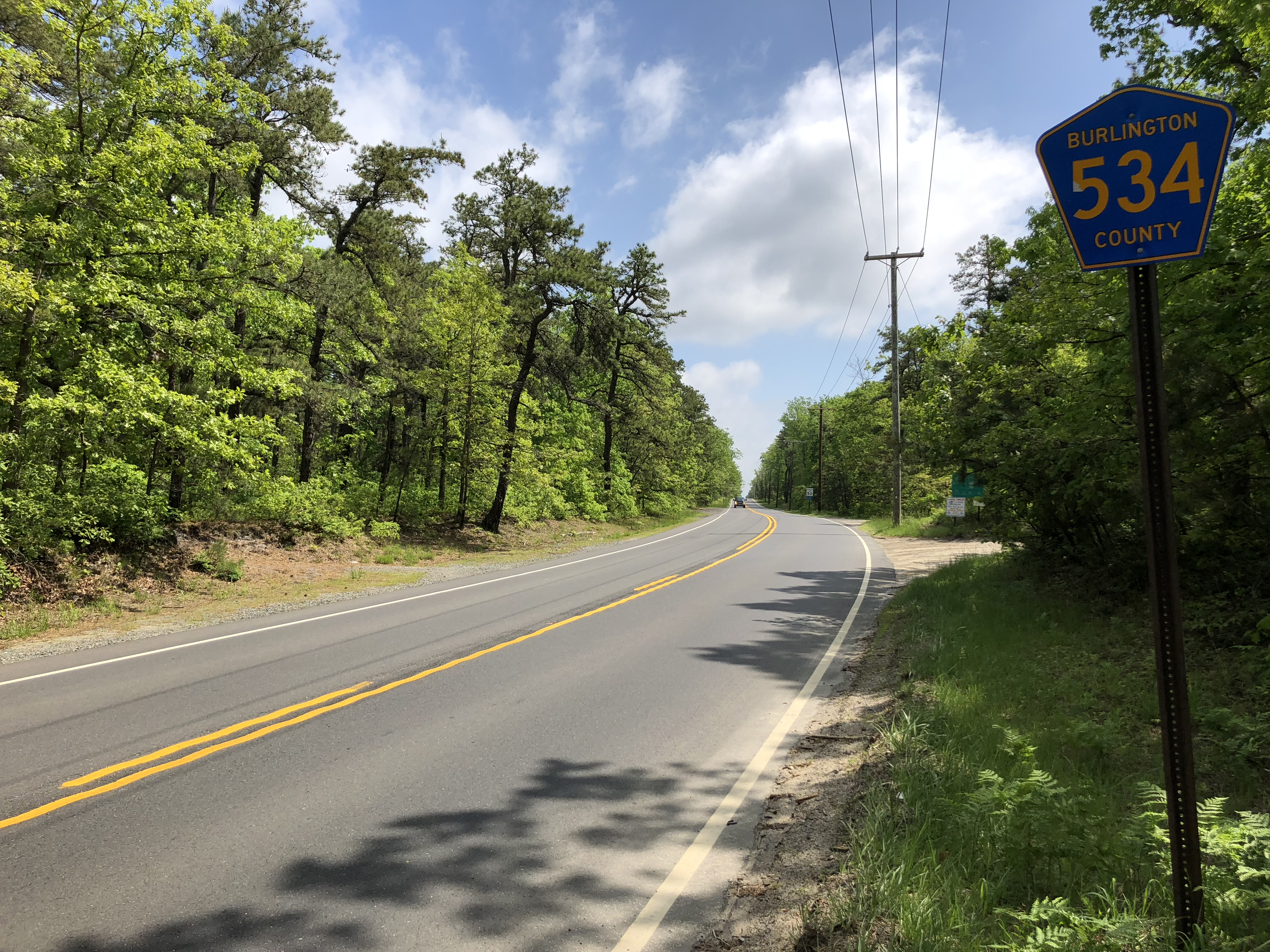 View east along Burlington County Route 534 (Jackson Road) just east of the Mullica River in Shamong Township, Burlington County, New Jersey